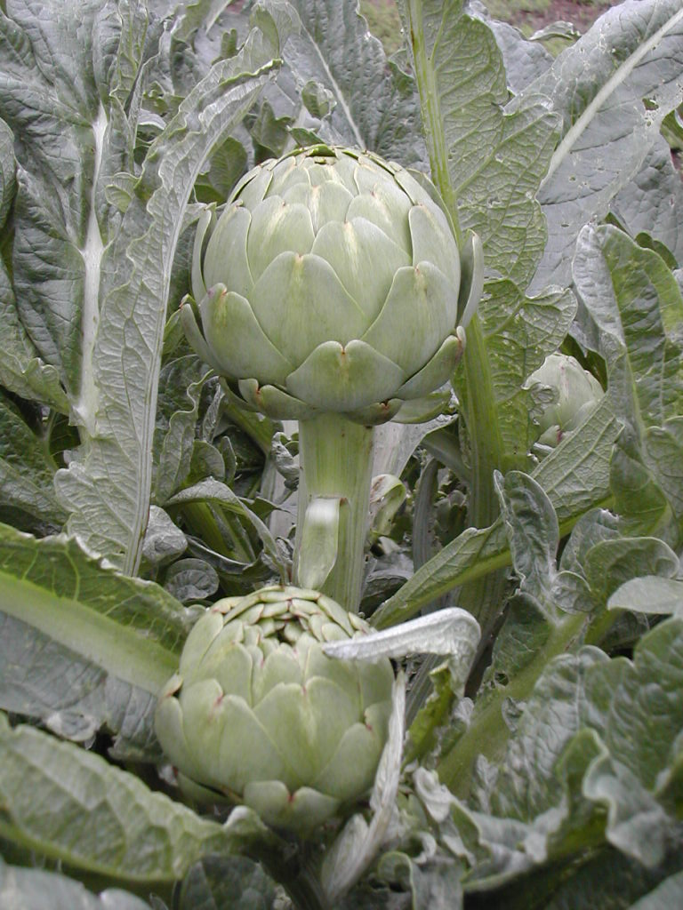 Clonal cultivar developed by the Universidad Nacional Rosario, Argentina.